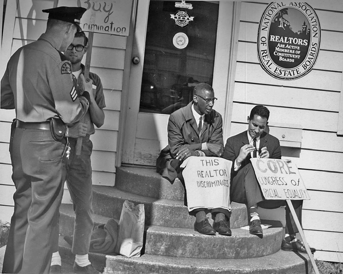 Fair housing protest, Seattle, Washington, 1964. Confronting racial discrimination in housing sales. CORE-sponsored demonstration at realtor office of Picture Floor Plans, Inc. Picture Floor Plans, Inc. had more than one location, but this would probably have been their Lake City location, 13300 Bothell Way NE, given File:Filming the police at Seattle fair housing protest, 1964 (30351879996).jpg. See our website for an online exhibit about the open housing campaign in Seattle. Item 63897, Records of the Office of the Mayor (Record Series 5210-01), Seattle Municipal Archives.